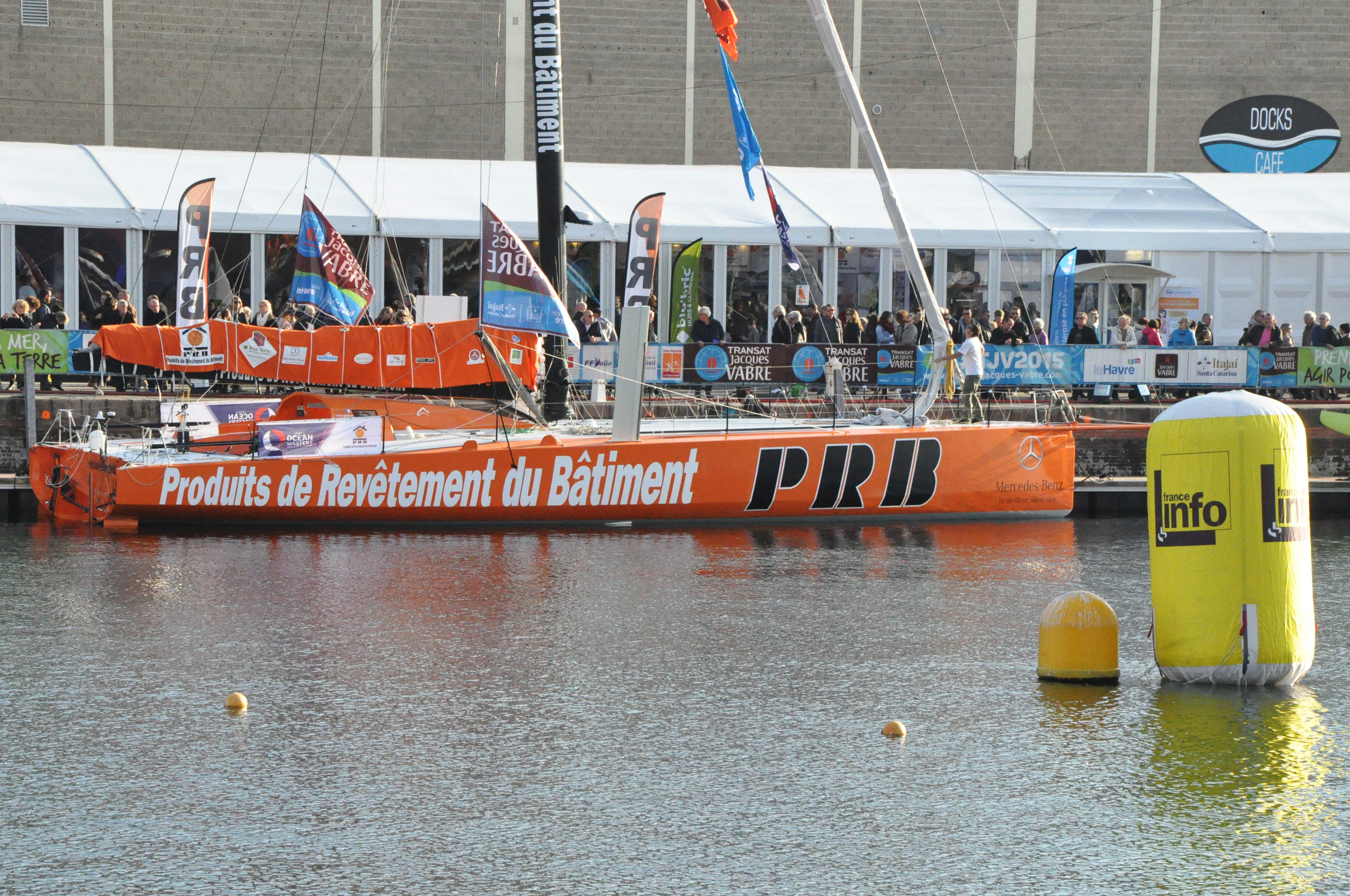 October 2015, Transat Jacques Vavre, Le Havre (France, Normandy)